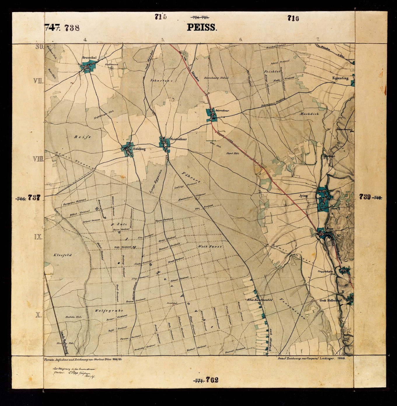 historical map sheet of Bavaria from area south of Munich (Hofoldinger Forst)